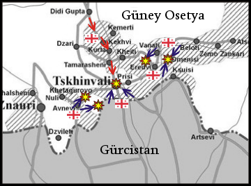 Map of the main conflict zone in S. Ossetia, 8 August 2008. Blue arrows show Georgian attacks, red show Russian